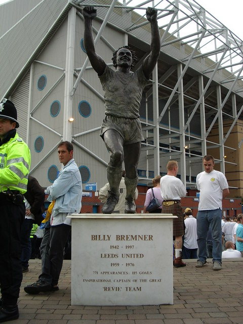 Billy Bremner Statue - Elland Road This is a memorial statue to one of Leeds United's finest captains, who met an untimely death.